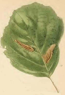 Stainton’s Natural History of the Tineina (1855–1873): Phyllonorycter stettinensis alder leaf with two mines